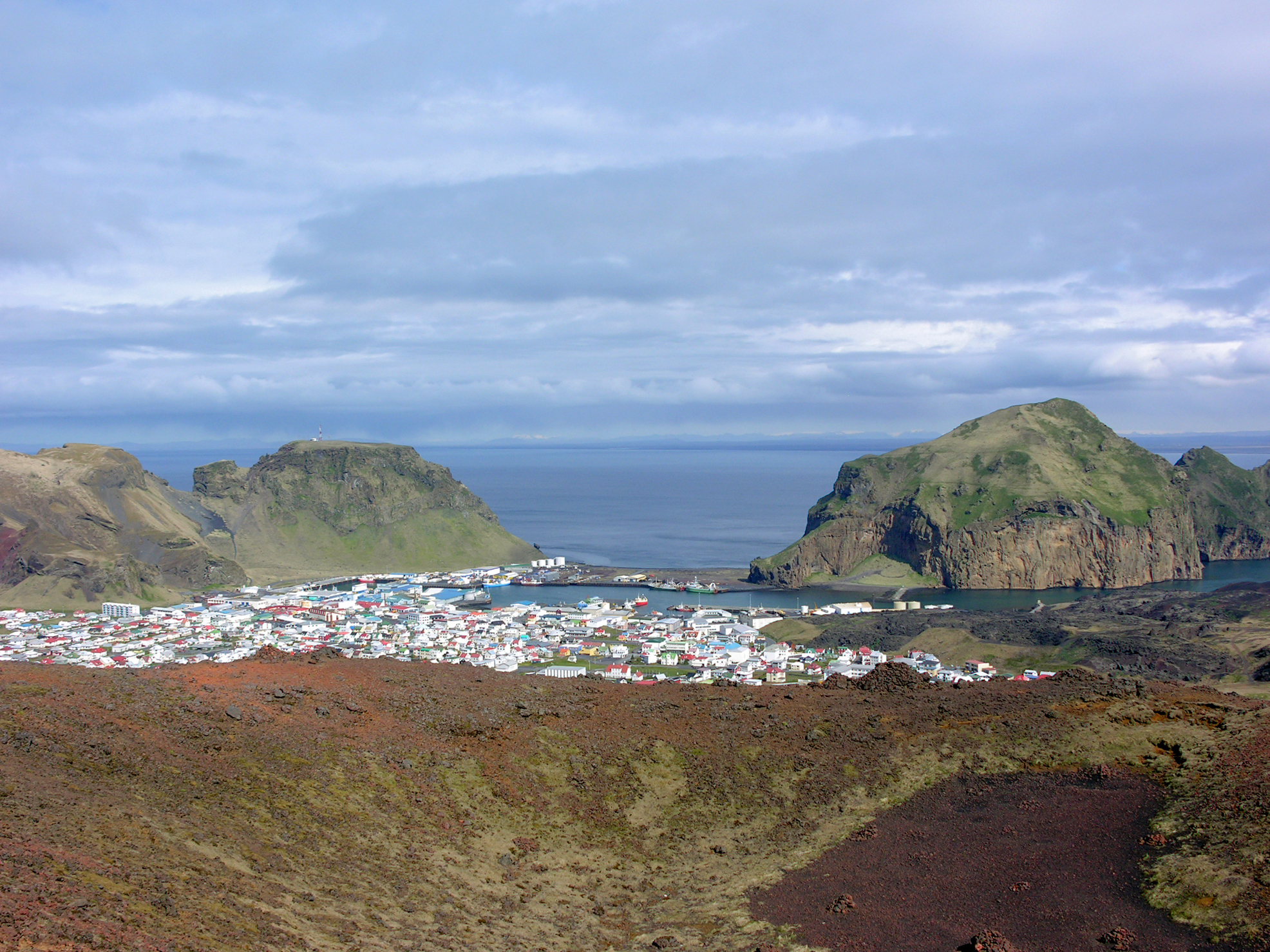 Iceland, Heimaey